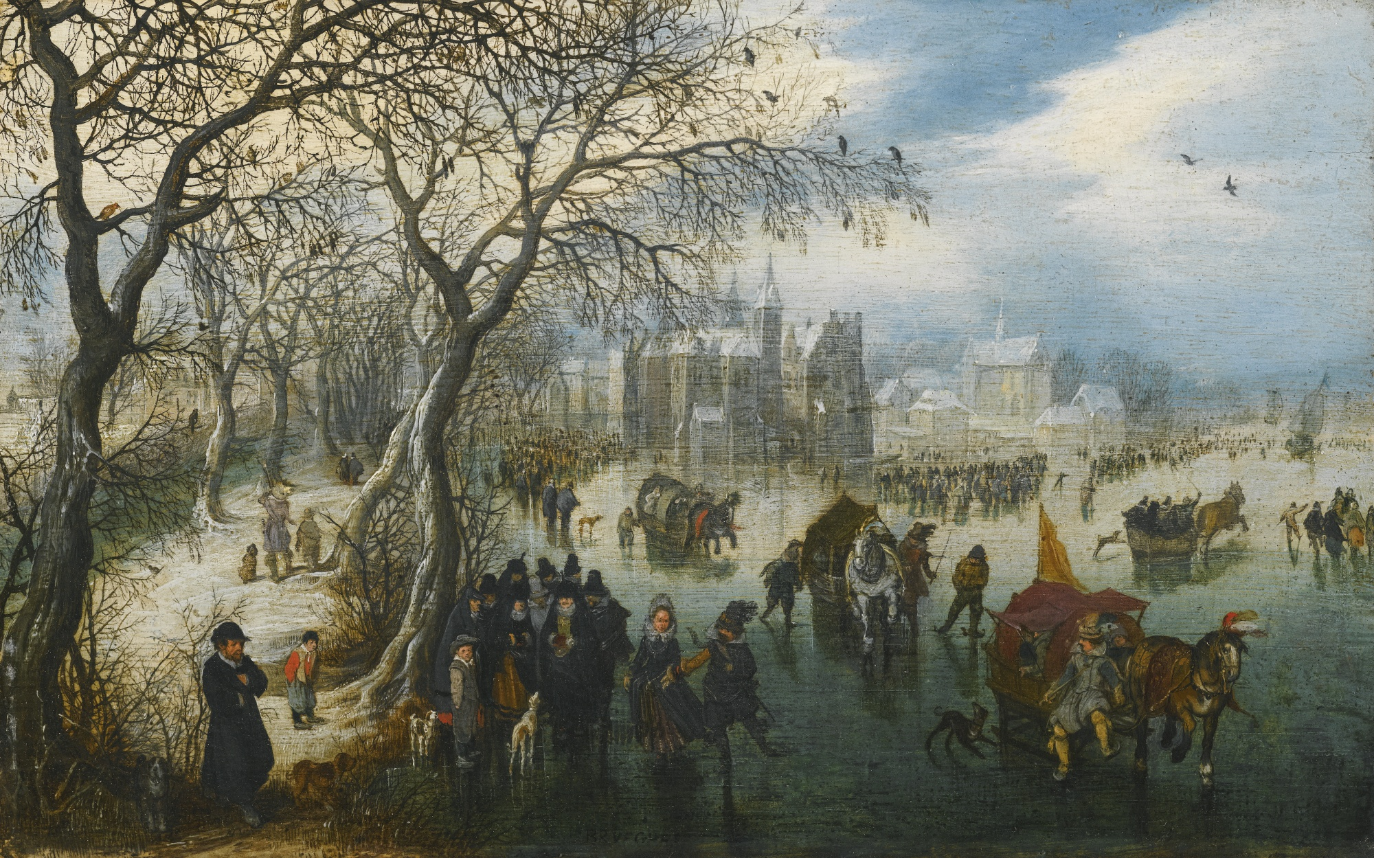 Winter landscape with elegant figures on the ice before a town